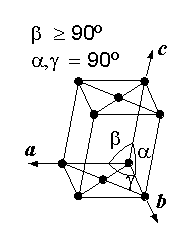 Unit cell of the monoclinic base centred crystal lattice.